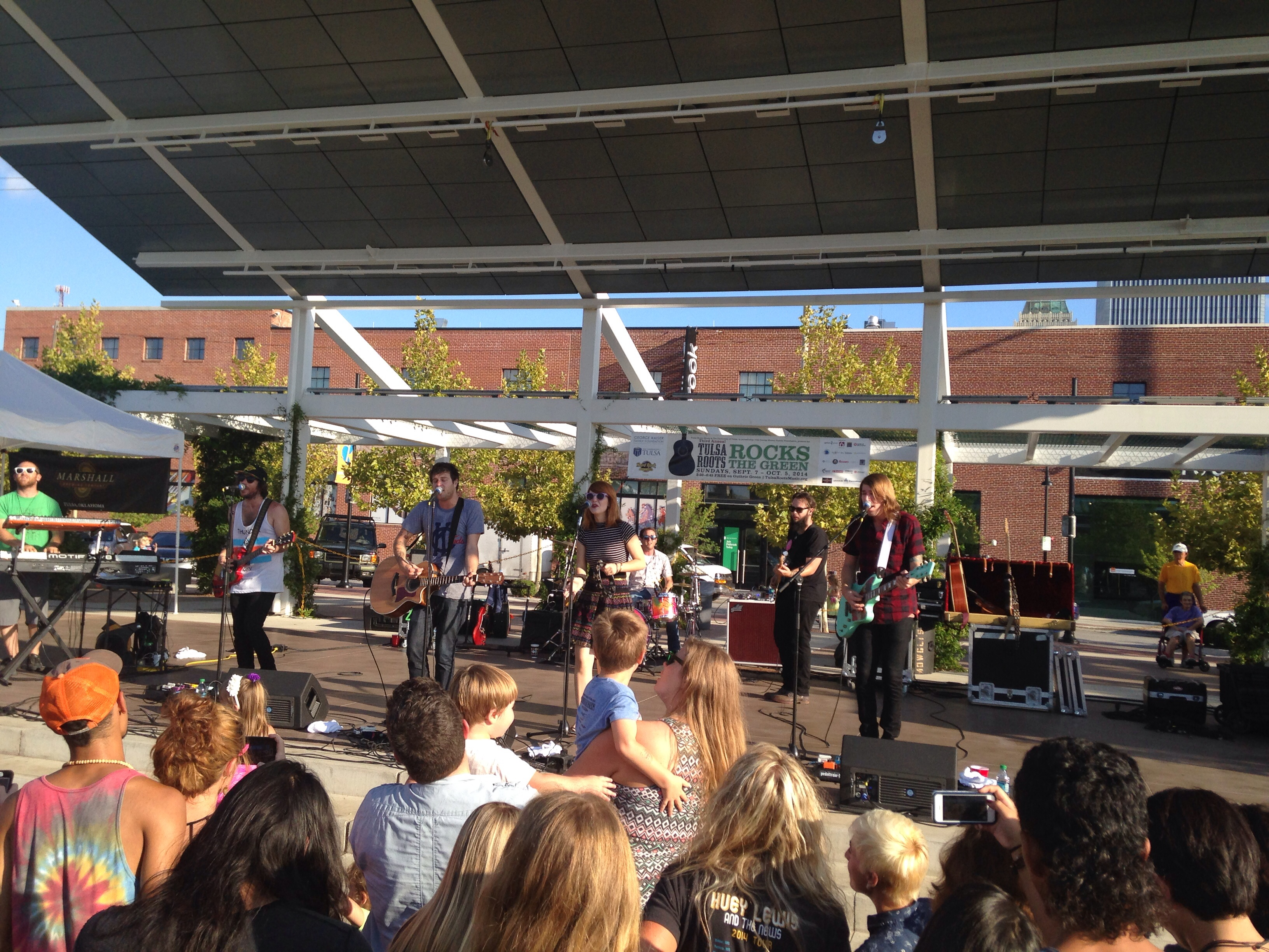 The Mowgli's Guthrie Green Tulsa 9-7-2014